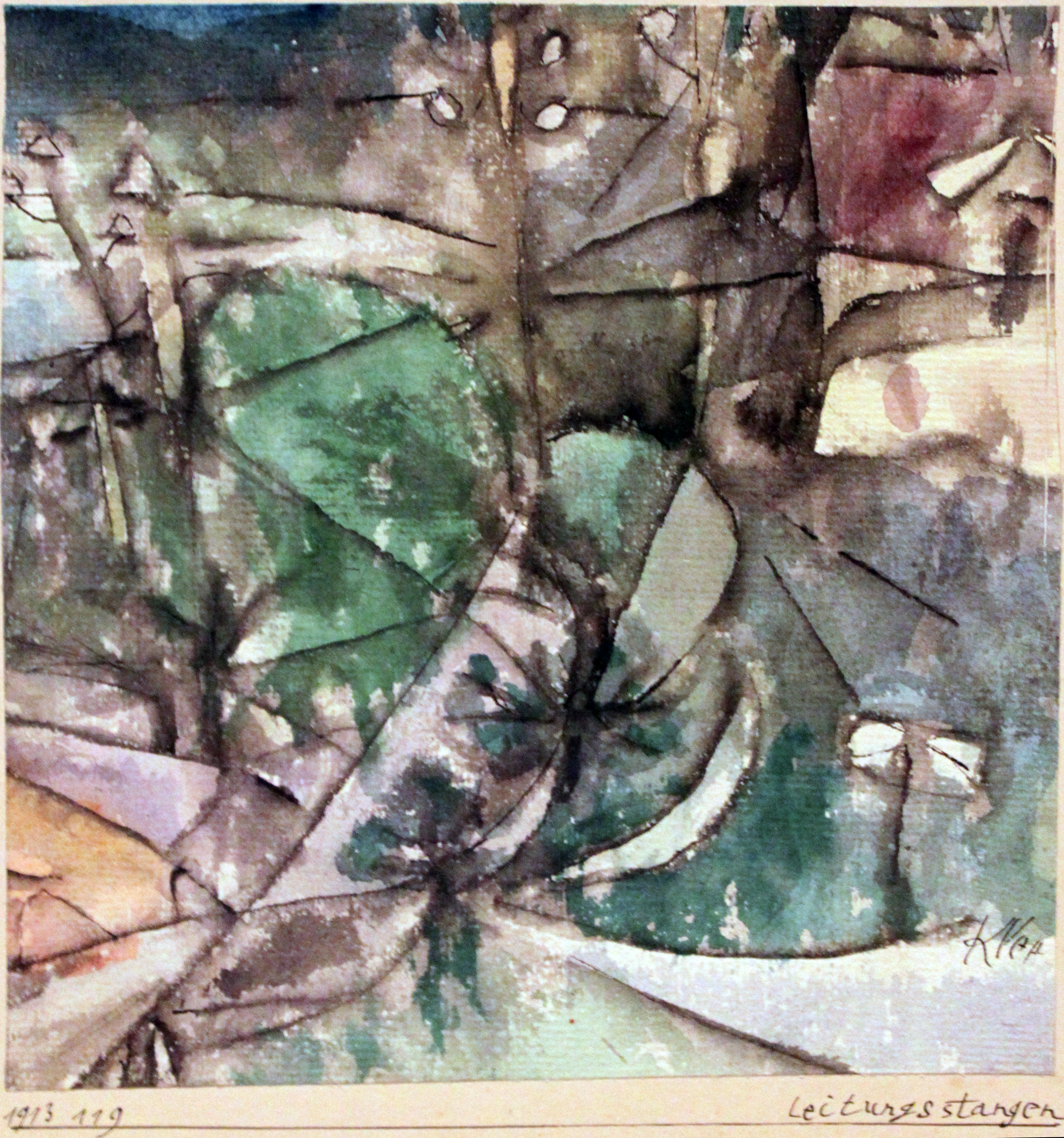 Utility Poles